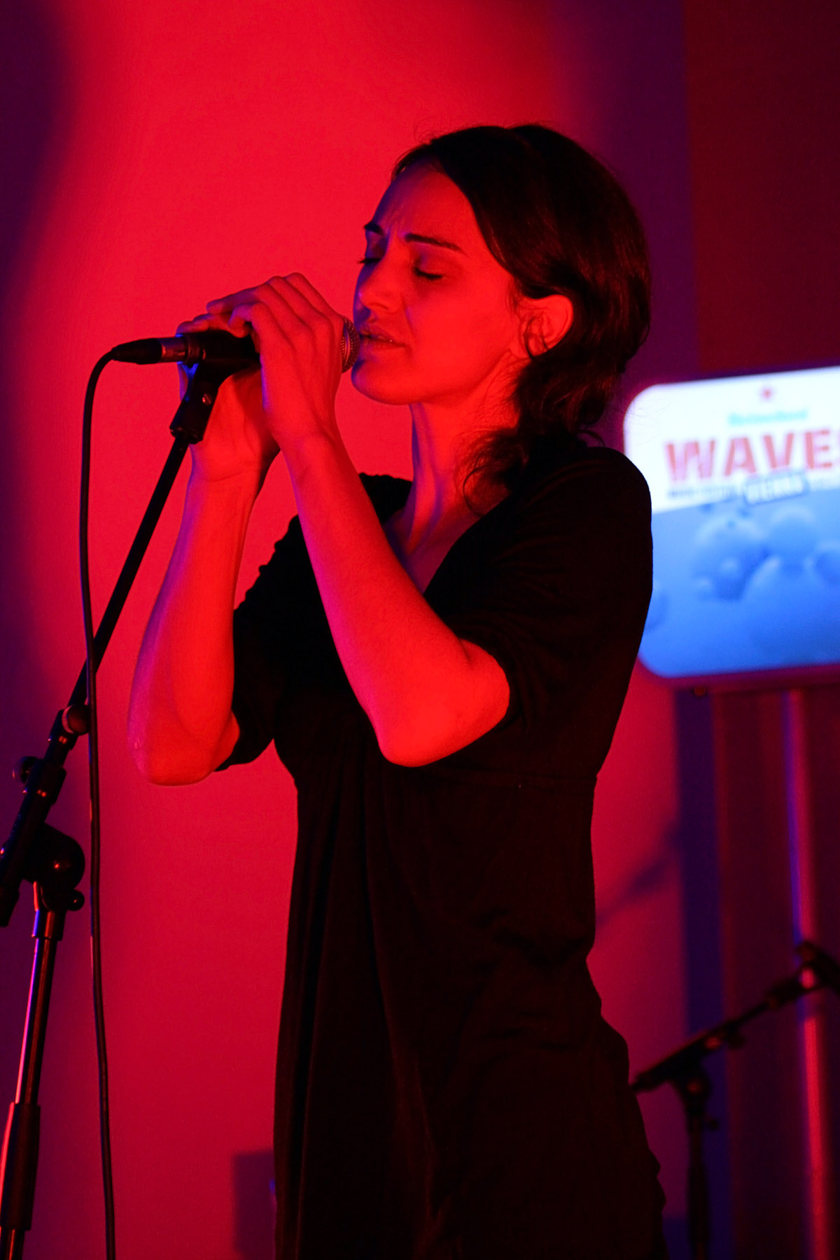 Tania Saedi with Daniel Kern, Waves Vienna Music Festival & Conference 2011 in Vienna, Austria.